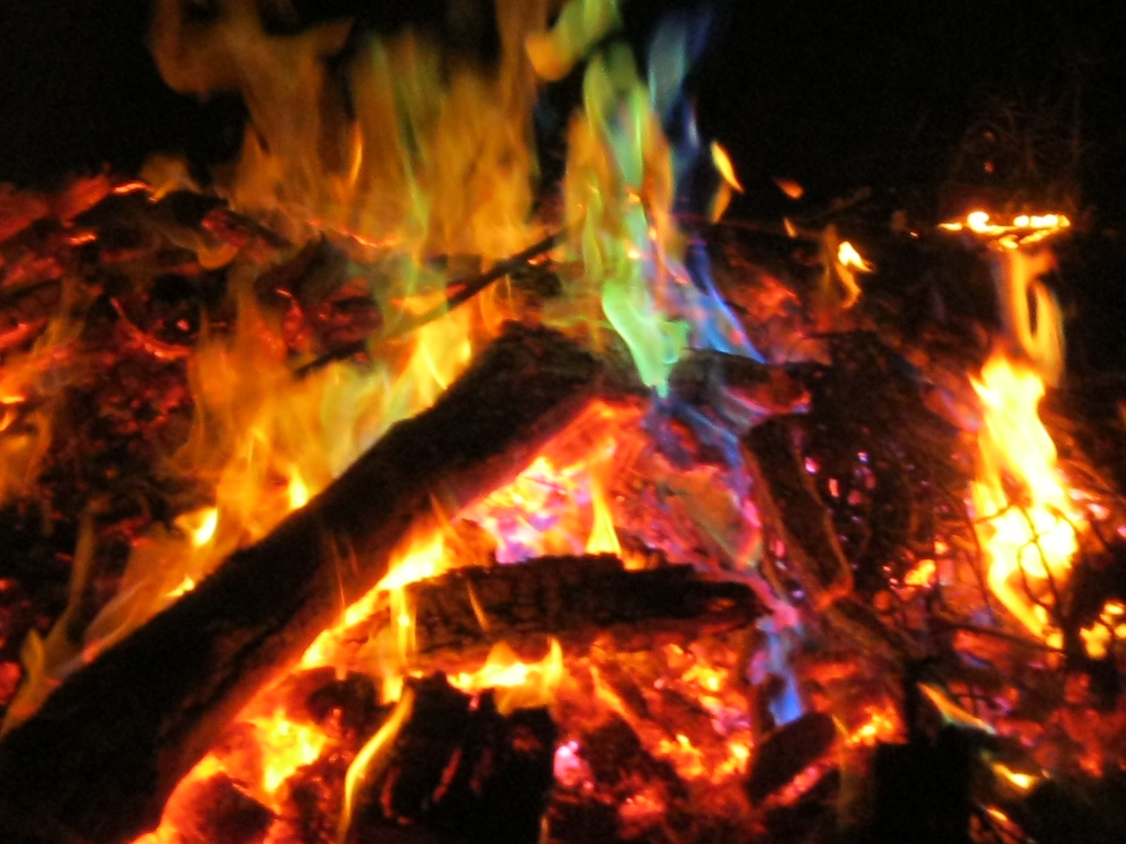 Combustion of Copper